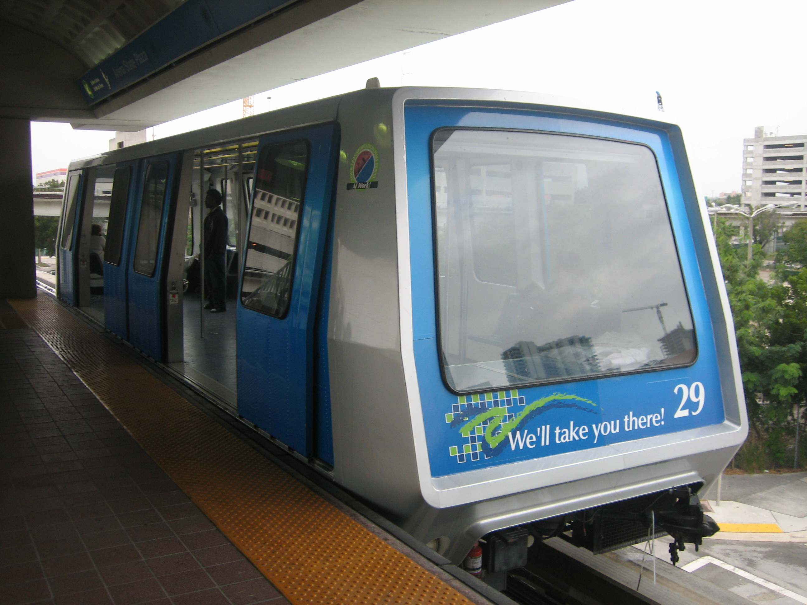 A Miami-Dade Metromover in the Arena/State Plaza.